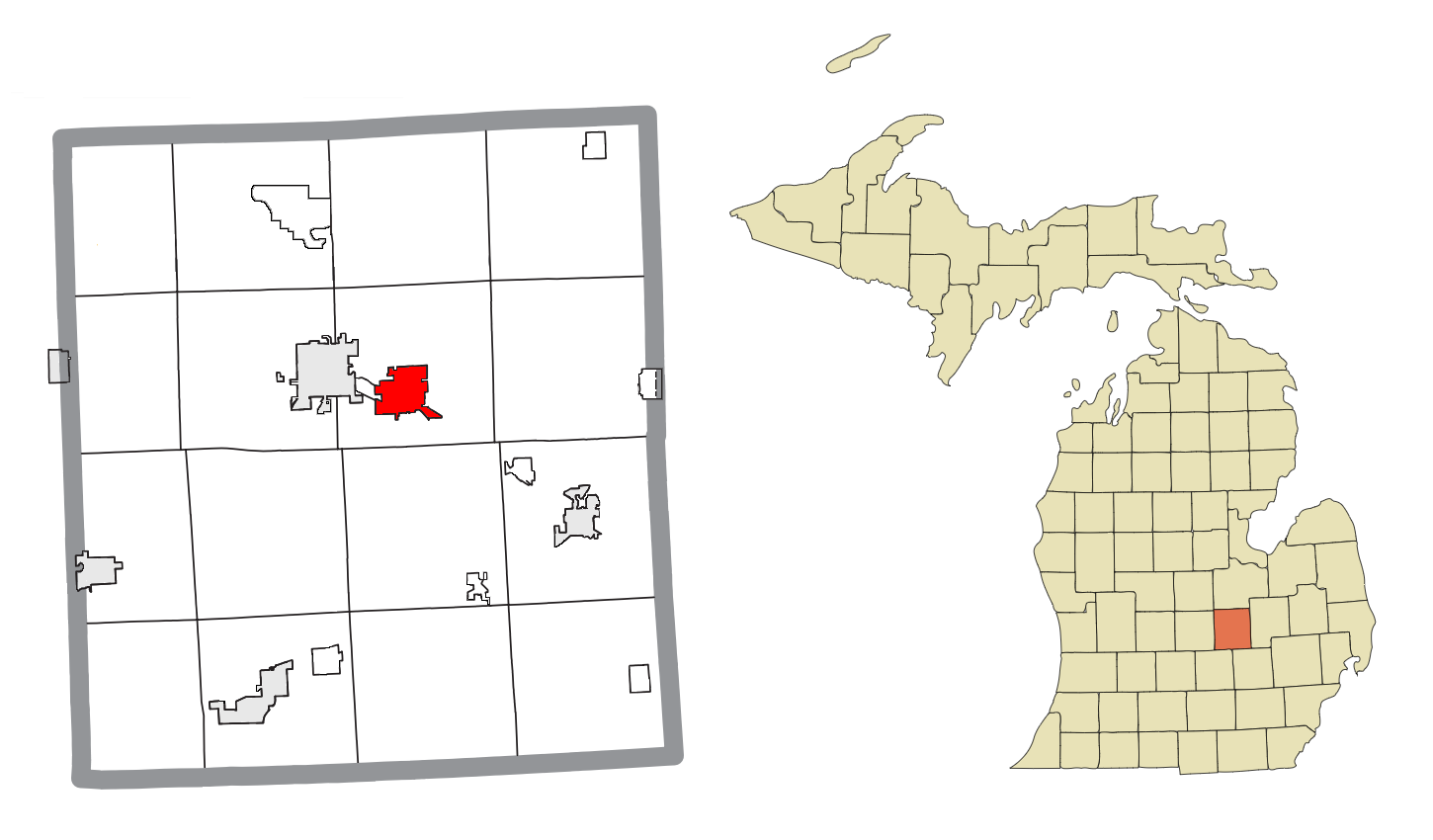 Corunna, MI